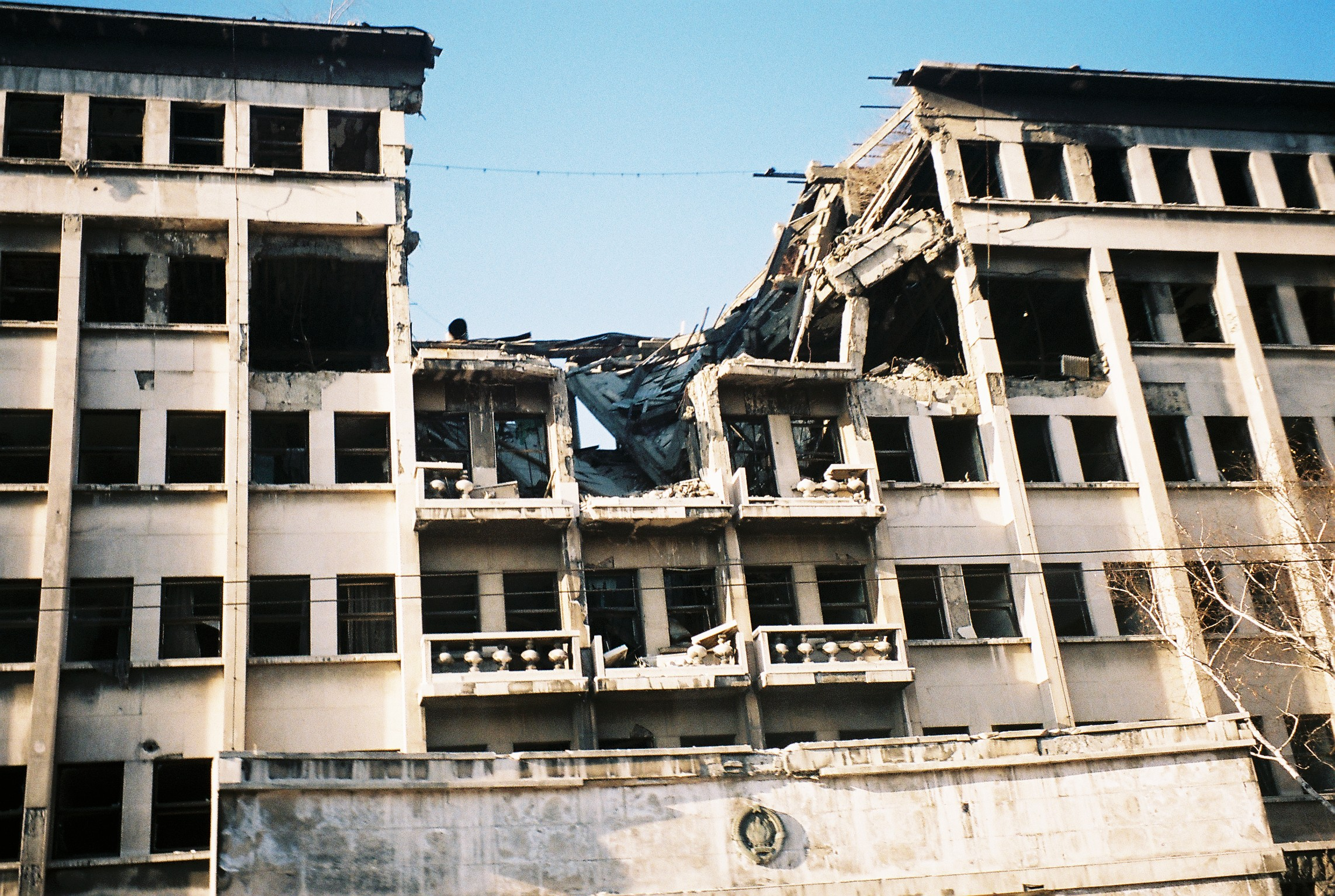 Bombed building of Serbian MUP (Ministry of Police) in Knez Miloš Street